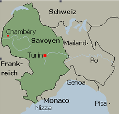 Duchy of Savoie 1563